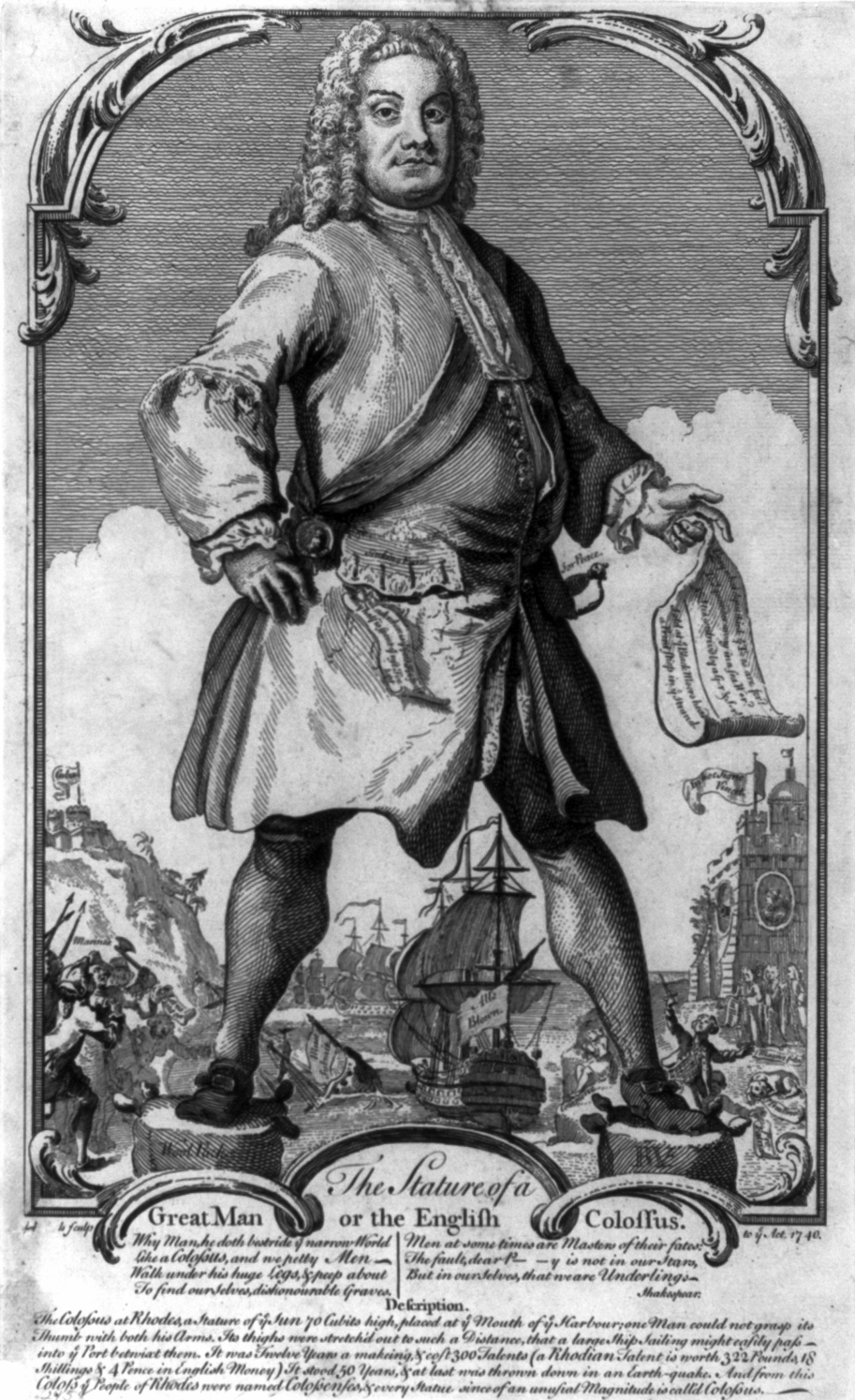 "The Stature of a Great Man or the English Colossus". Satire of Sir Robert Wapole alluding to his "extreme reluctance to engage in war...to resist the aggressions of Spain and France". Caption reads: Why Man, he doth bestride of narrow World Like a Colossus, and we petty Men – Walk under his huge Legs, & peep about To find ourselves, dishonourable Graves Men at some times are Masters of their fates: The fault, dear P––y is not in our stars, But in ourselves, that we are Underlings —Shakespear [sic] Description: The Colossus at Rhodes, a statue of the Sun 70 Cubits high, placed at the Mouth of the Harbour; one Man could not grasp its Thumb with both his Arms. Its thighs stretch'd out to such a Distance, that a large Ship Sailing might easily pass – into the Port betwixt them. It was Twelve Years a makeing, & cost 300 Talents (a Rhodian Talent is worth 322 Pounds, 18 shillings & 4 Pence in English Money) It stood 50 Years, & at last was thrown down in an Earth-quake. And from this Colossus the People of Rhodes were named Colossenses, & every Statue since of an unused Magnitude is call'd Colossus.